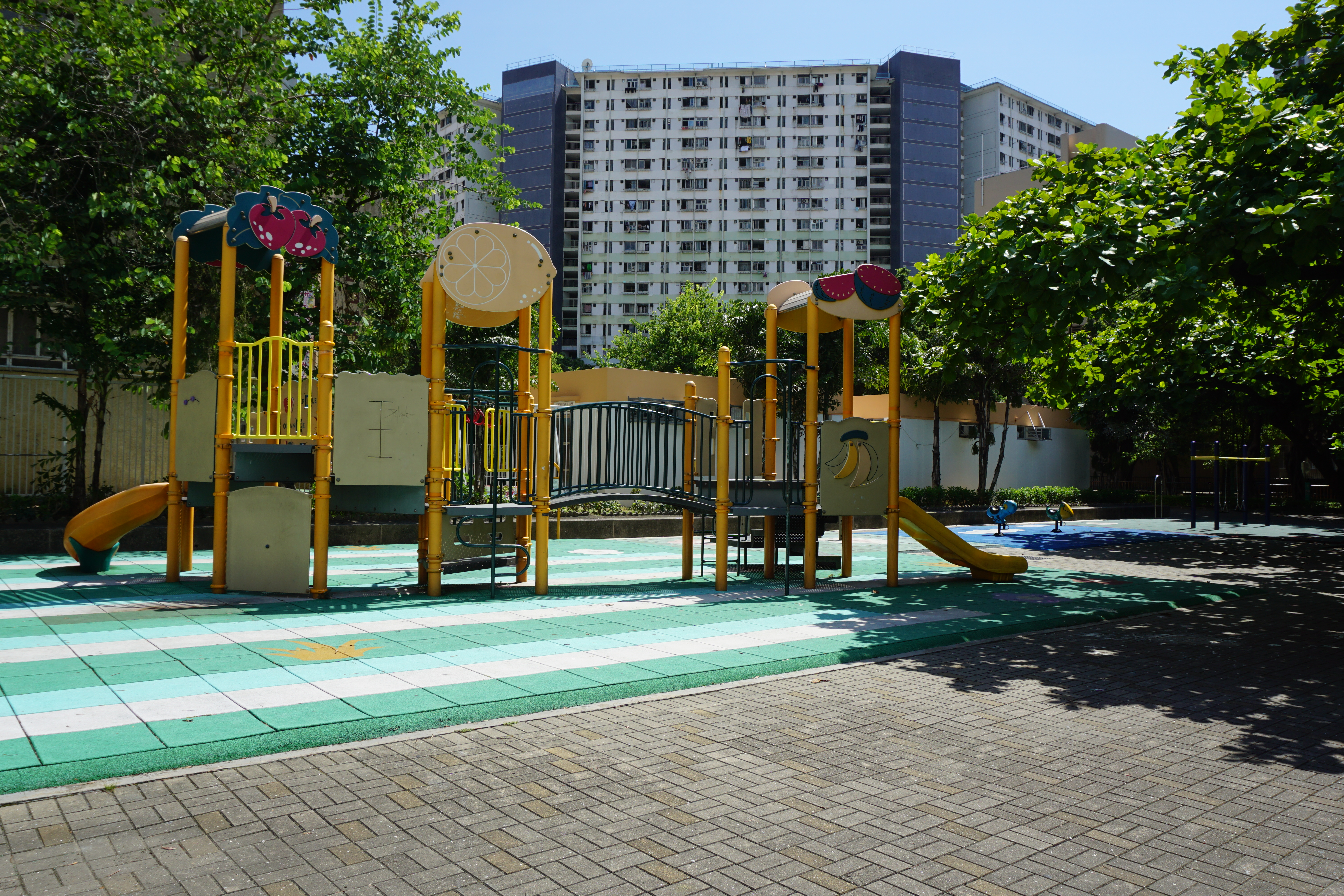 Siu On Court in Tuen Mun, Hong Kong.